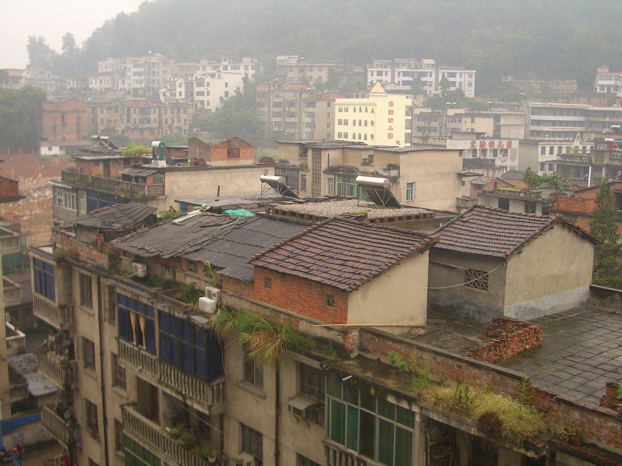 An apartment complex in downtown Tongyang Town, the county seat of Tongshan County, Hubei. Note the creative use of the building roofs!